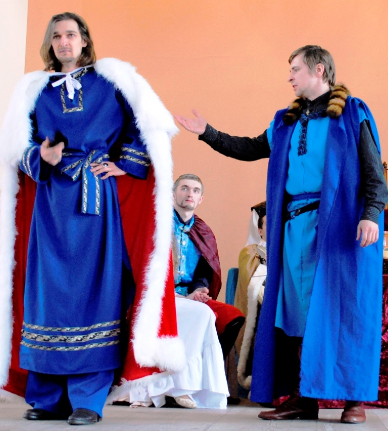 Dinish Lavrador 2012